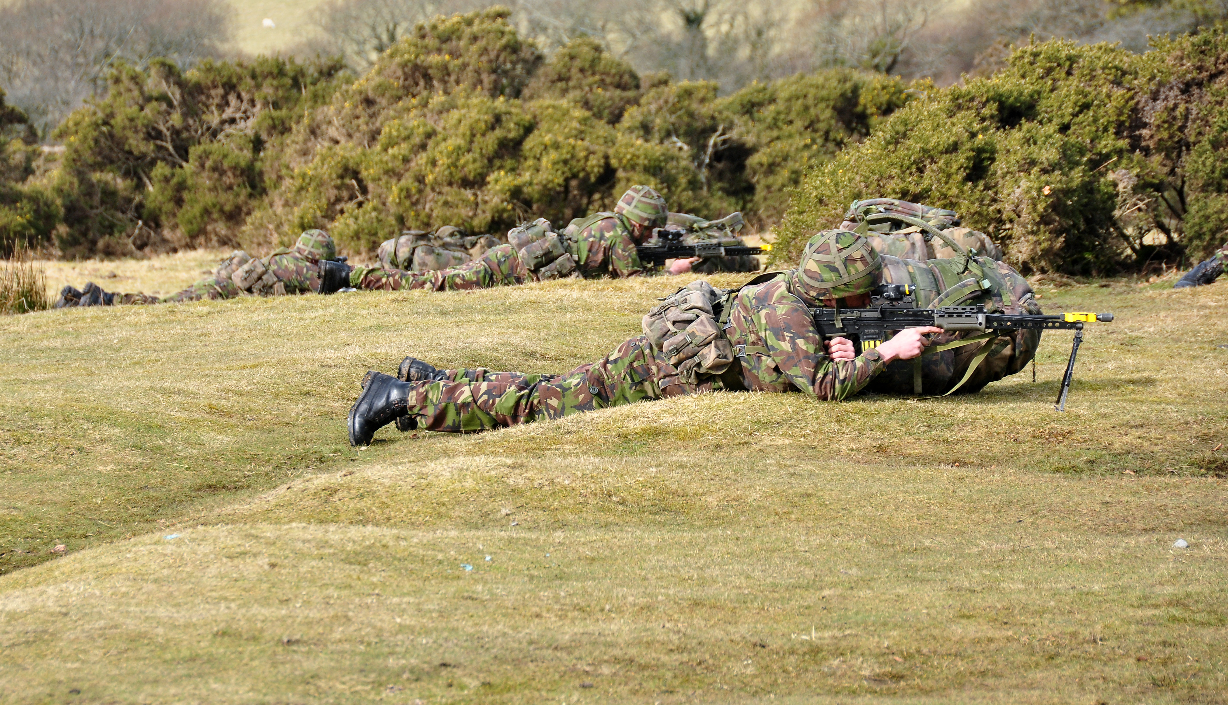 A number of soldiers and aiming their rifles at the start of a training exercise at Brisworthy on the southern edge of Dartmoor.